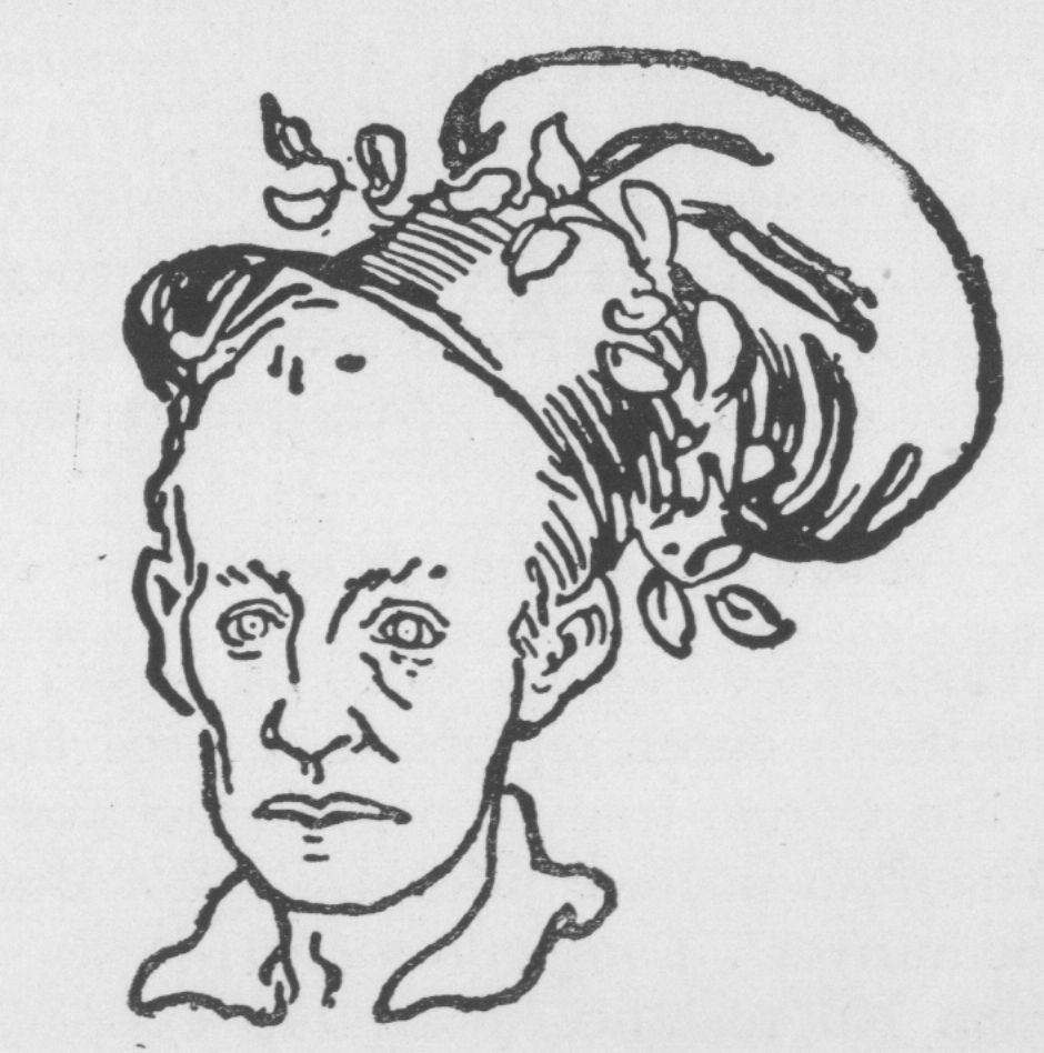 Caricature to Gerhart Hauptmann